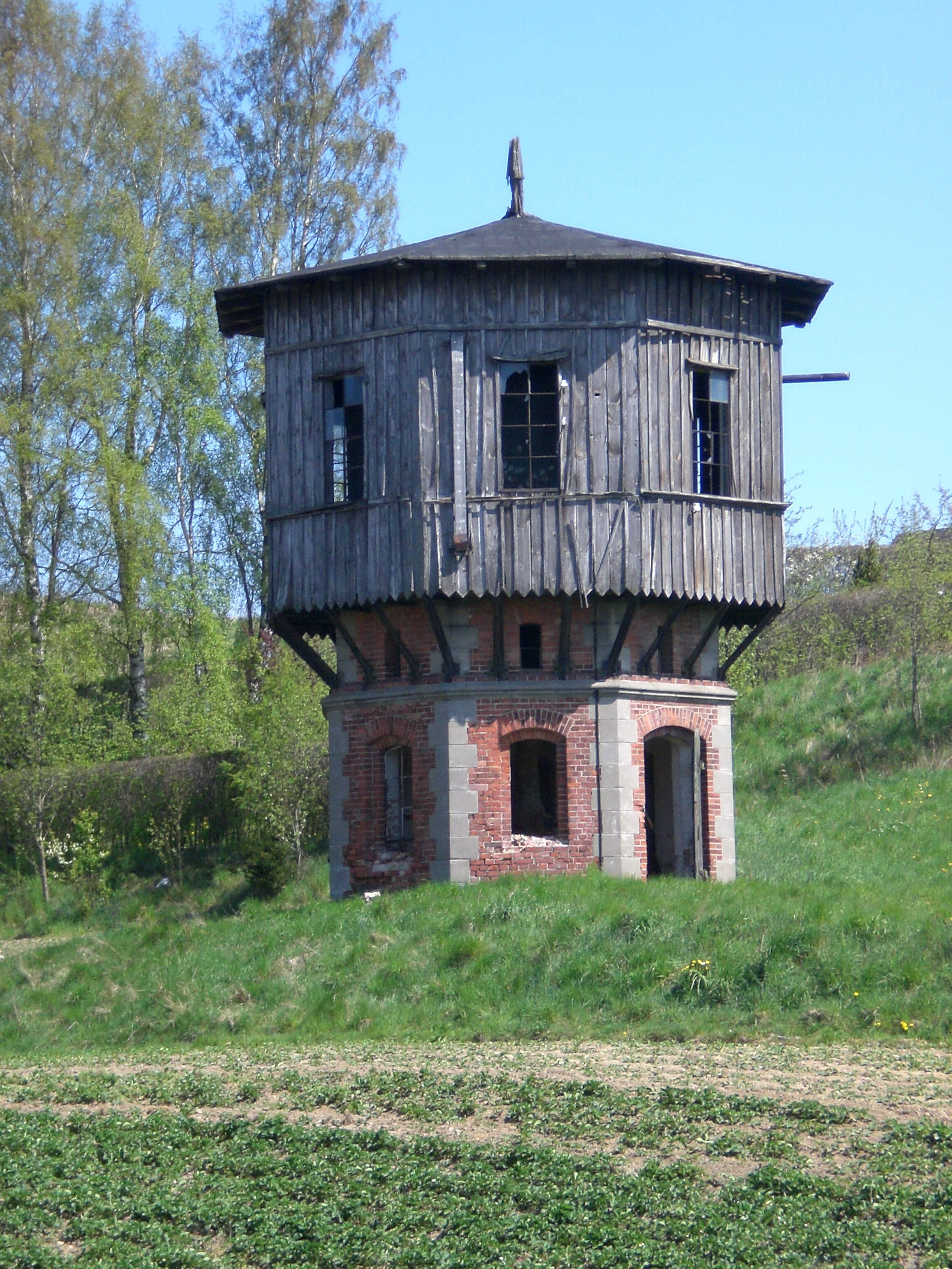 Water tower in Miechucino